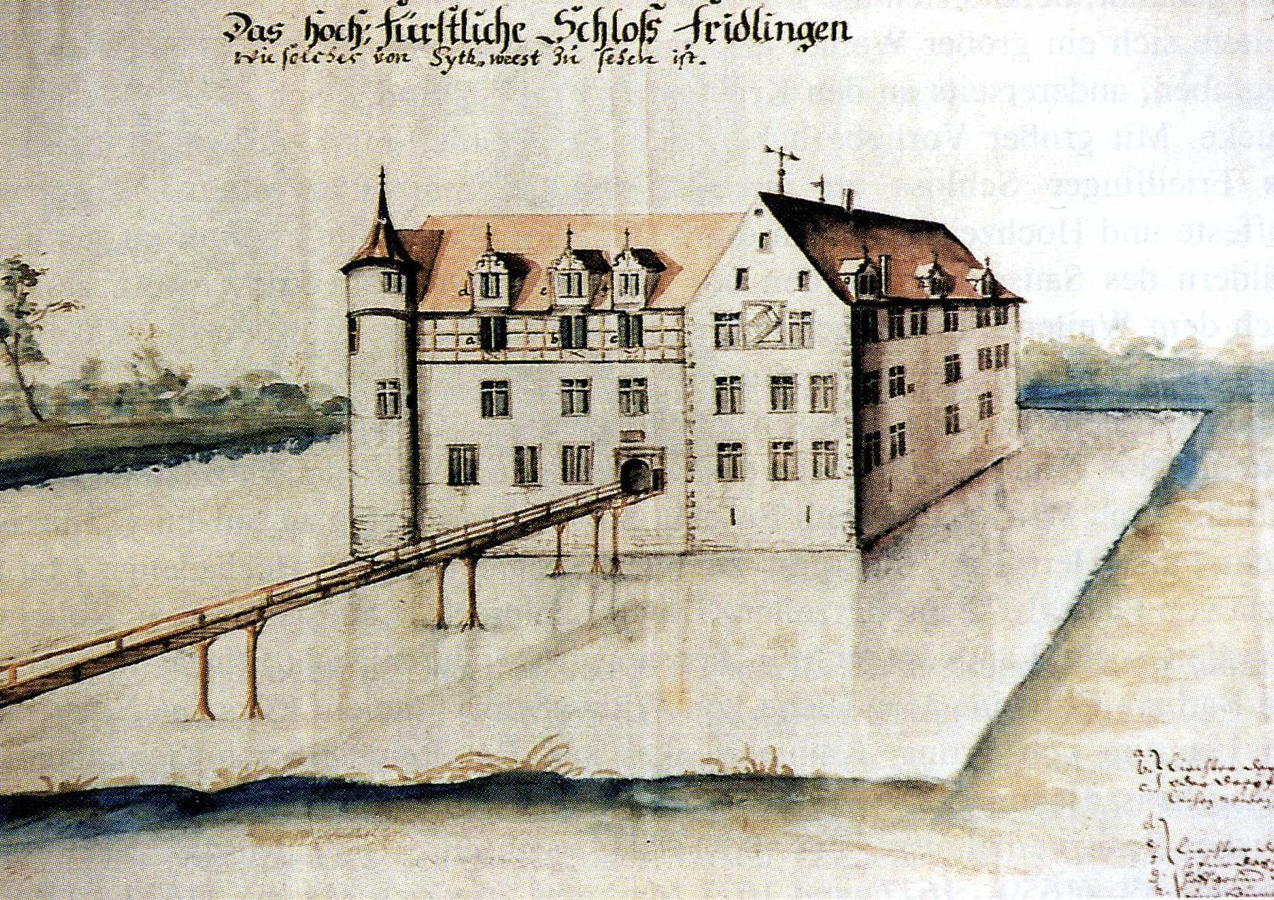 moated manor house Friedlingen